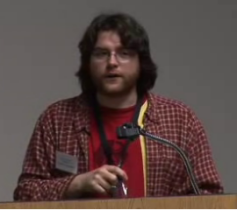 Ryan C. Gordon giving a talk on the subject of Linux gaming at the SouthEast LinuxFest on June 13, 2009.